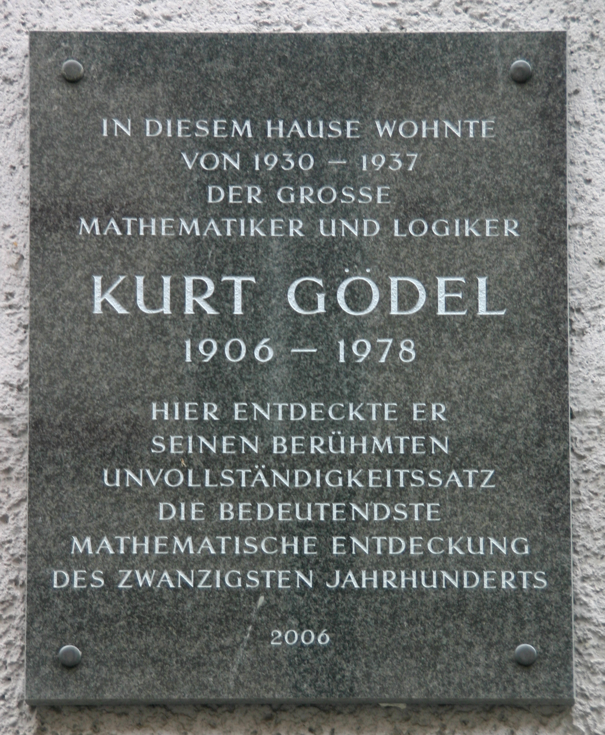 Josefstädter Straße, Vienna